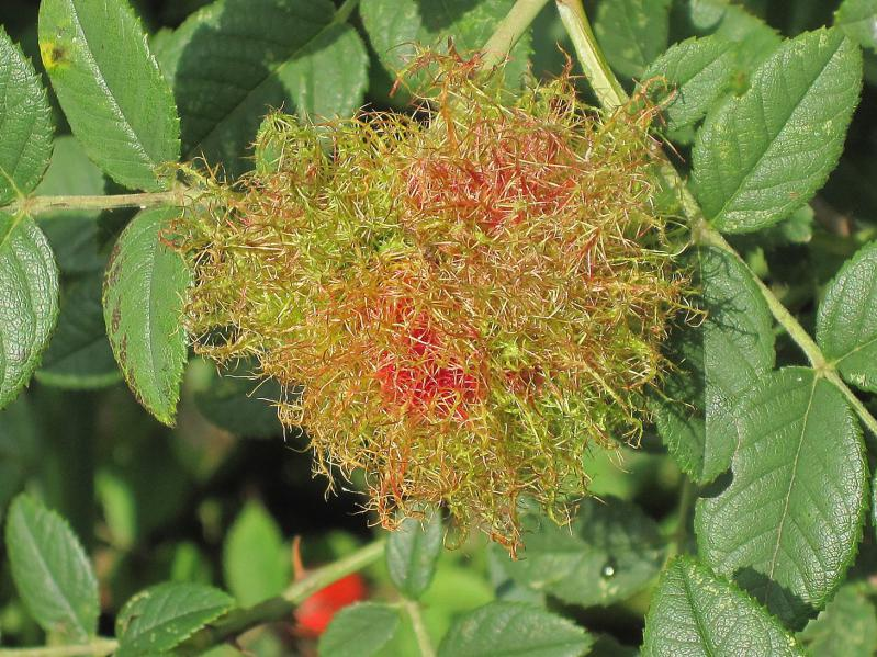 Diplolepis rosae (Gall_wasp sp.), Arnhem, the Netherlands